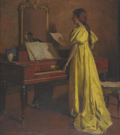 "A Singing Lesson", depicting a woman in a yellow dress standing in front of a piano, was exhibited by Frederick S. Challener at the Royal Canadian Academy of Art in 1900.